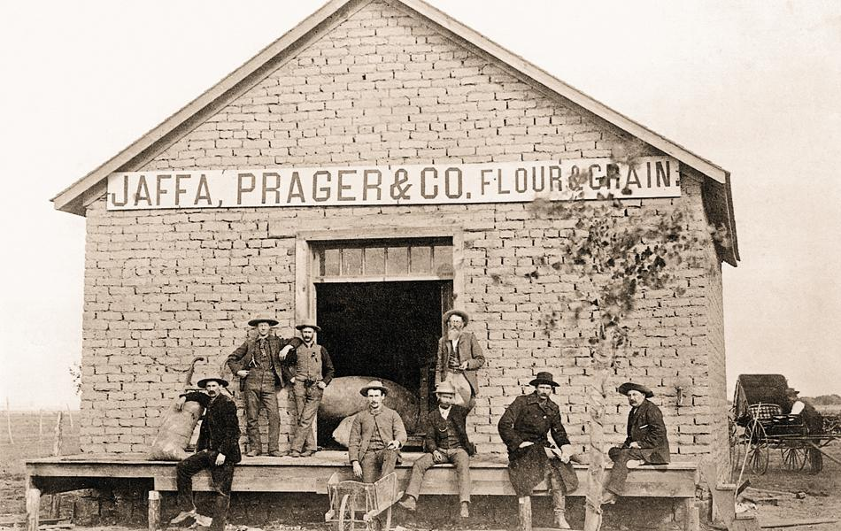 Sheriff Pat Garrett (2nd from right) with friends on the porch in Roswell, New Mexico.